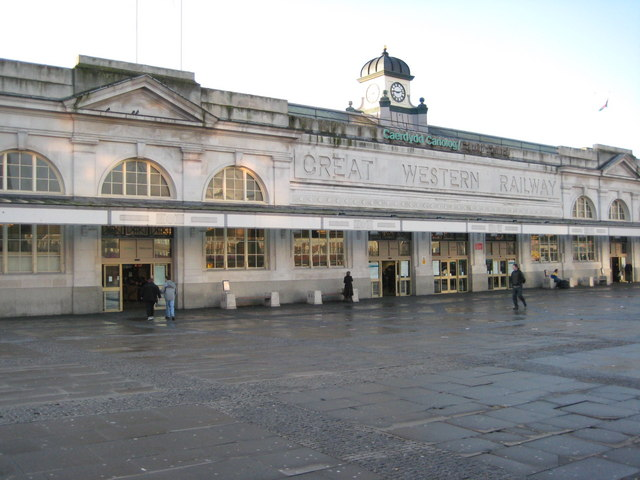 Cardiff Central Station Cardiff Central Station was rebuilt by the Great Western Railway in 1932.